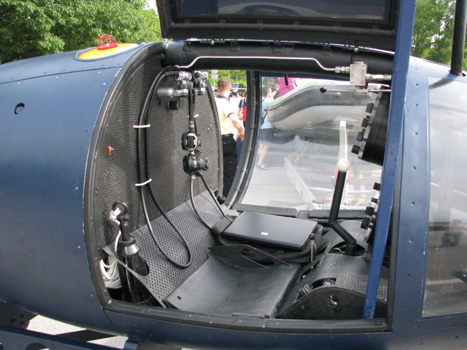 Croatian R-2M submersible